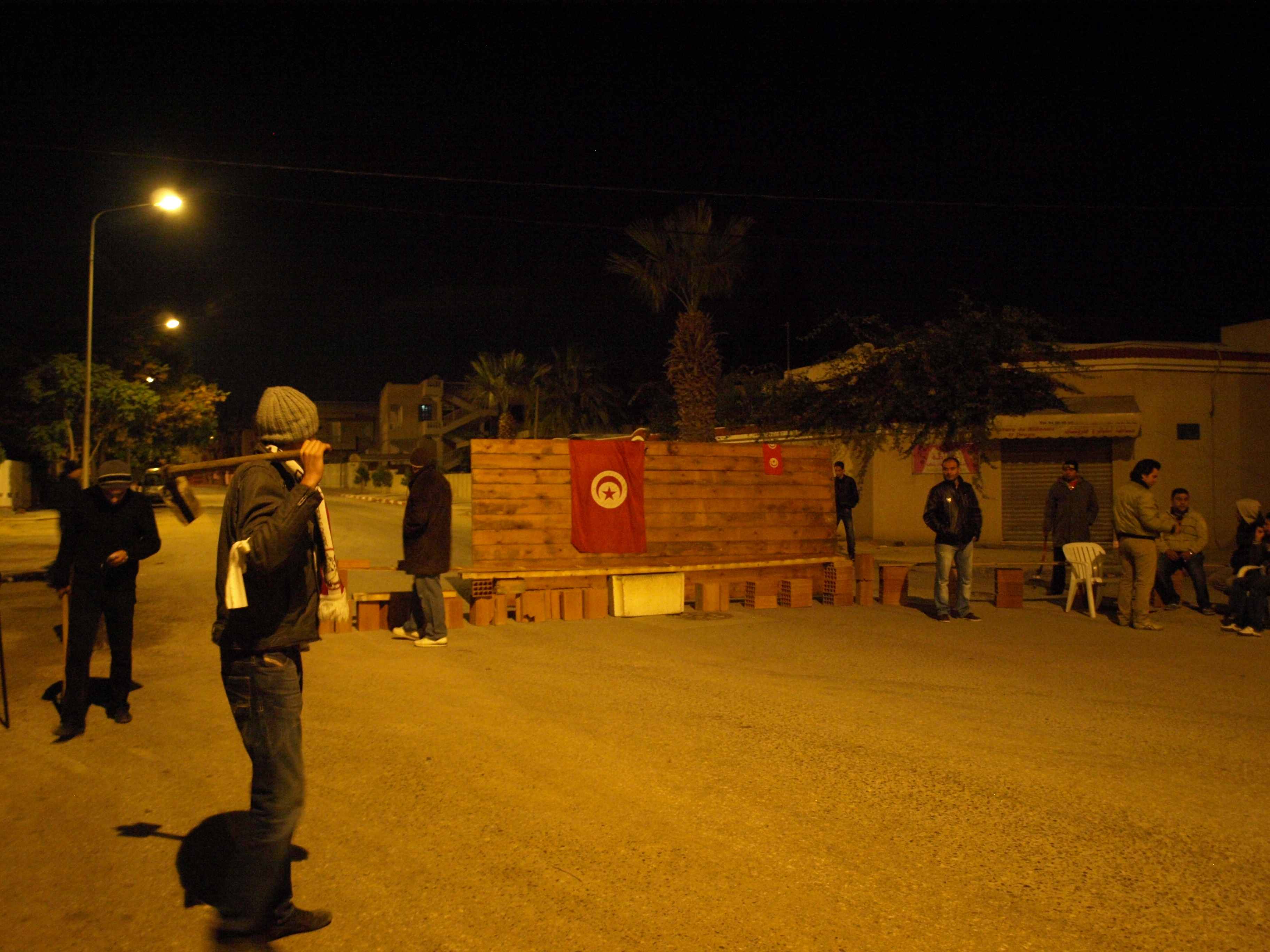 Neighborhood roadblocks set up in Tunisia to protect inhabitants from looters